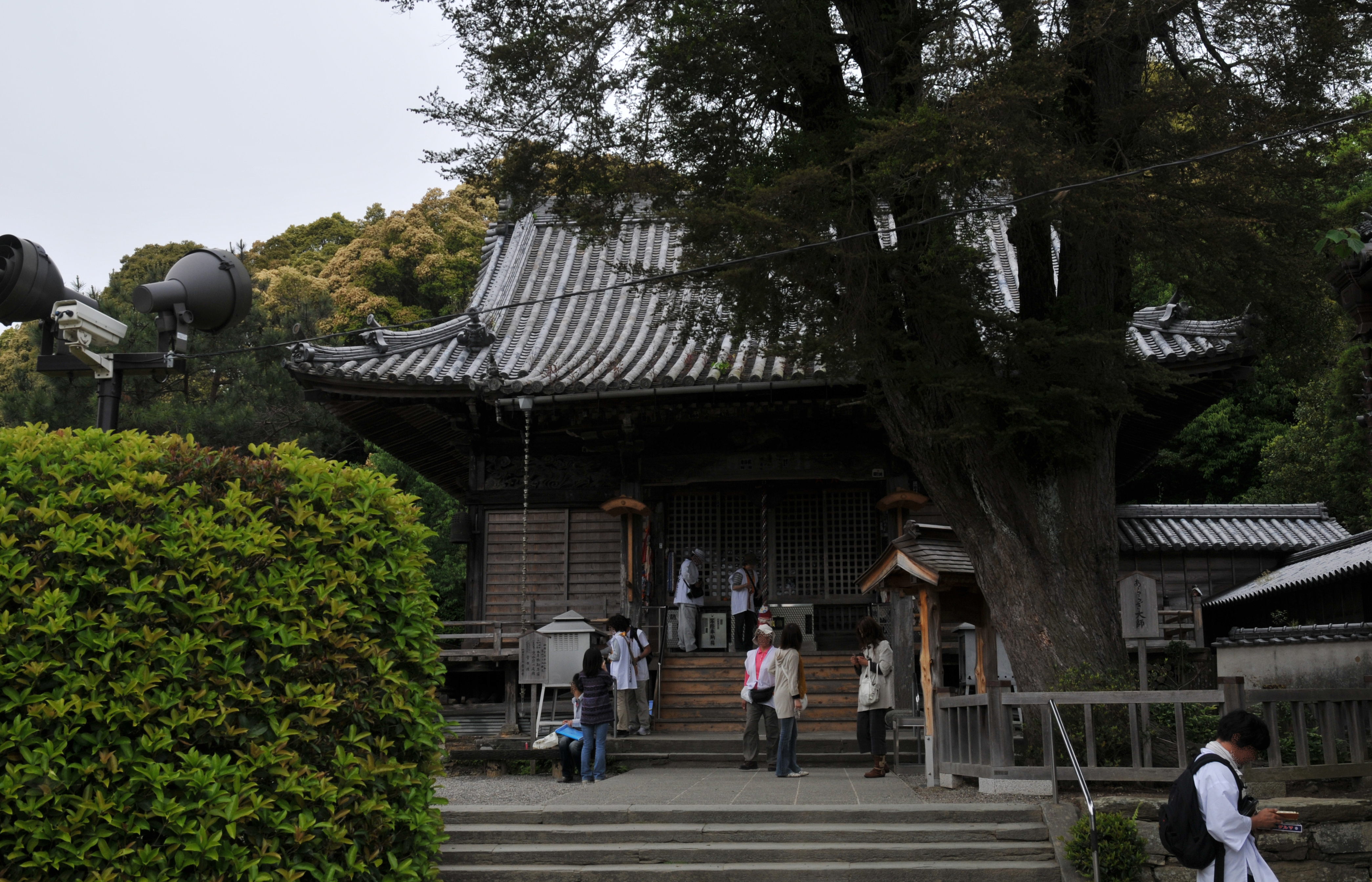 Main temple, Jōraku-ji